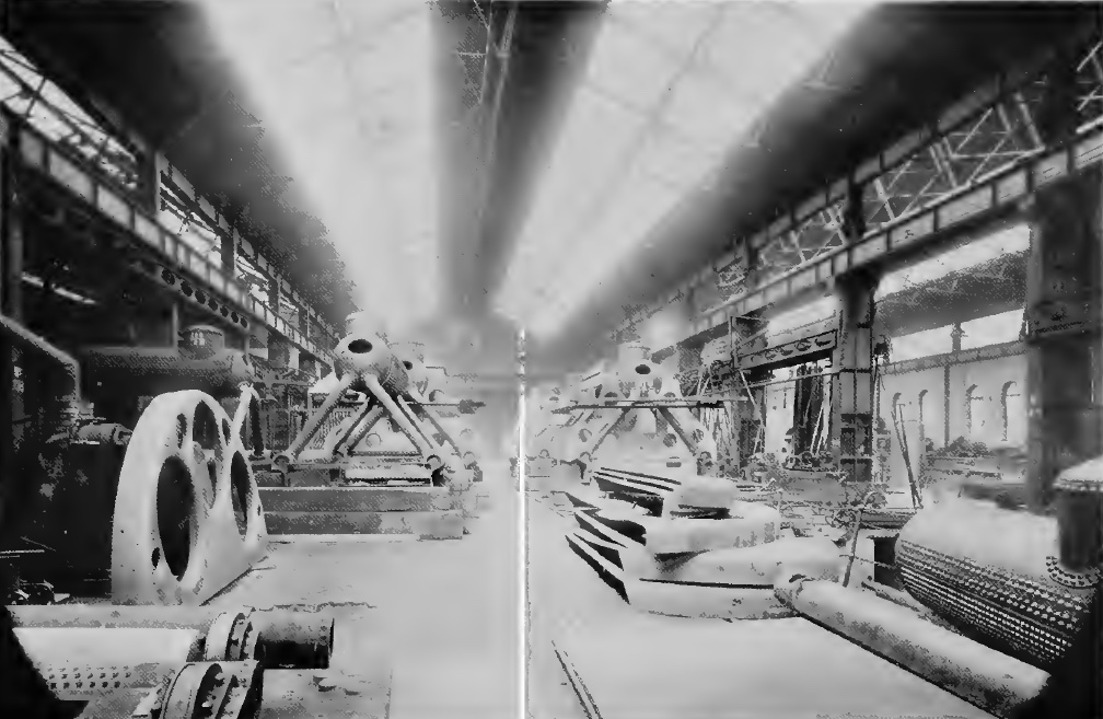 A view of the north end of the "New Boiler Shop" of Palmers Shipbuilding and Iron Company, published in 1900. Many of the boiler parts shown in this image are for Reed water tube boilers, patented by J. W. Reed, manager of Palmers' engine works. These include the top water chamber with dome at near right and the triangulated items further back, which are top and bottom water chambers with downcomer tubes attached.